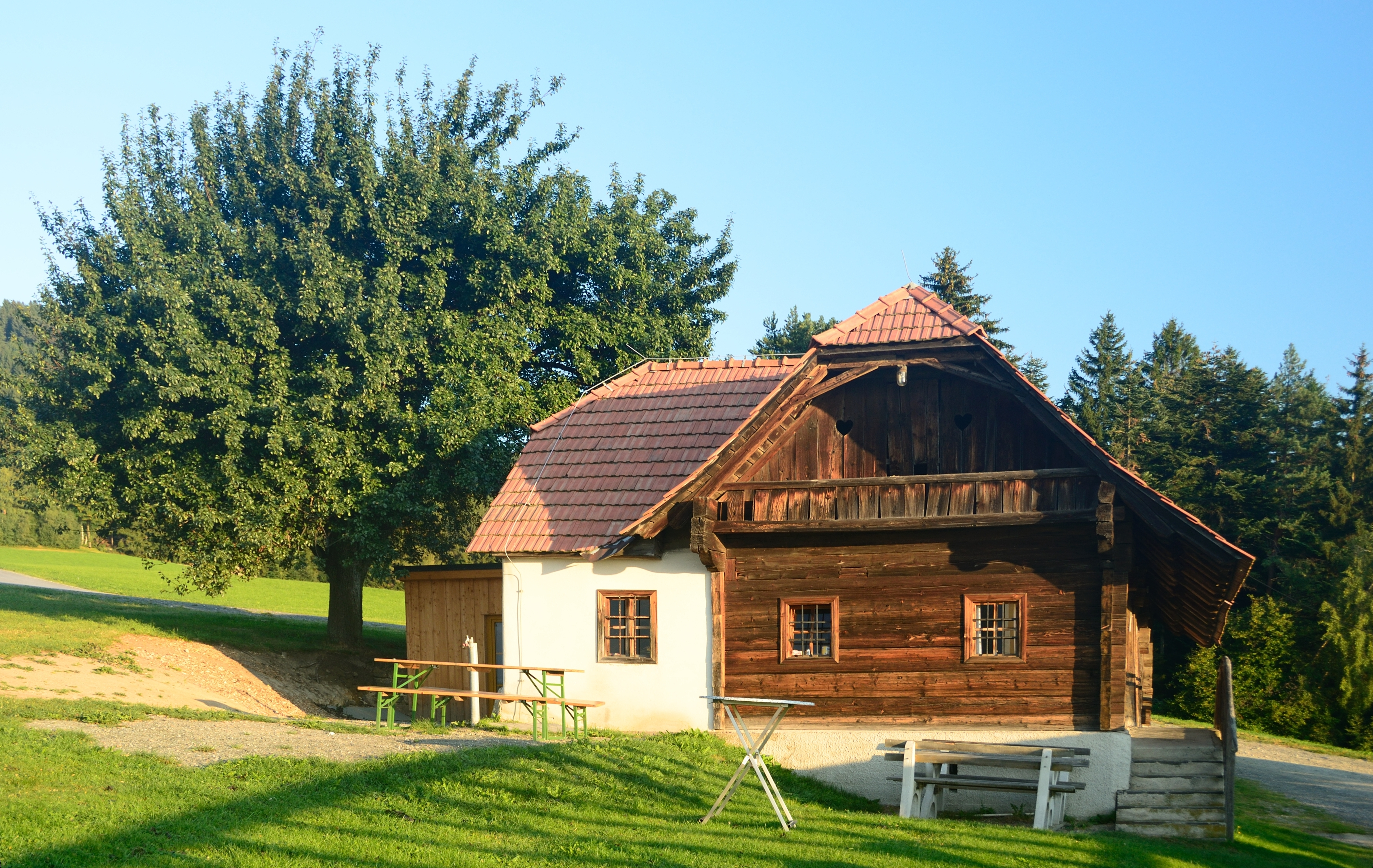 The former sacristan building in Pongrazen, municipality of Stambach, Styria, is an inn now and is protected as a cultural heritage monument. Early morning light.